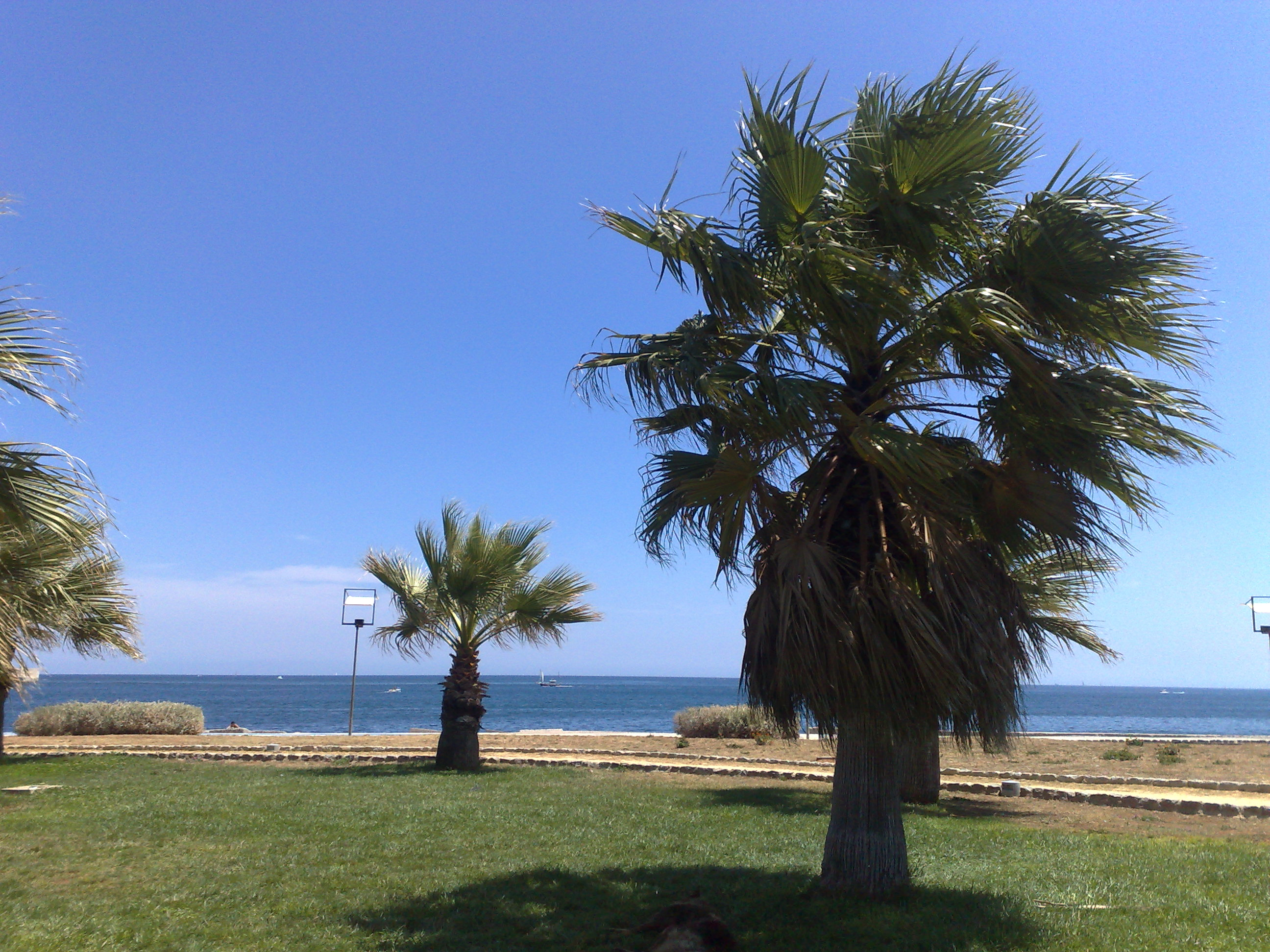 Foro italico garden in Palermo]